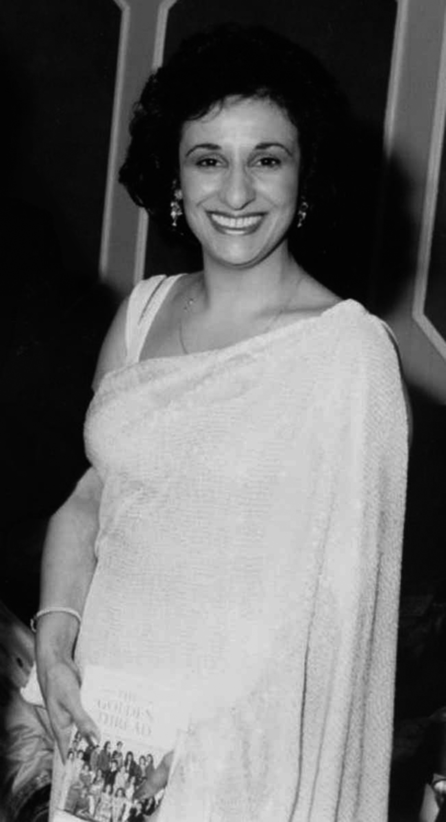 Mrs. Gifford attending the launch party for her book "The Golden Thread"